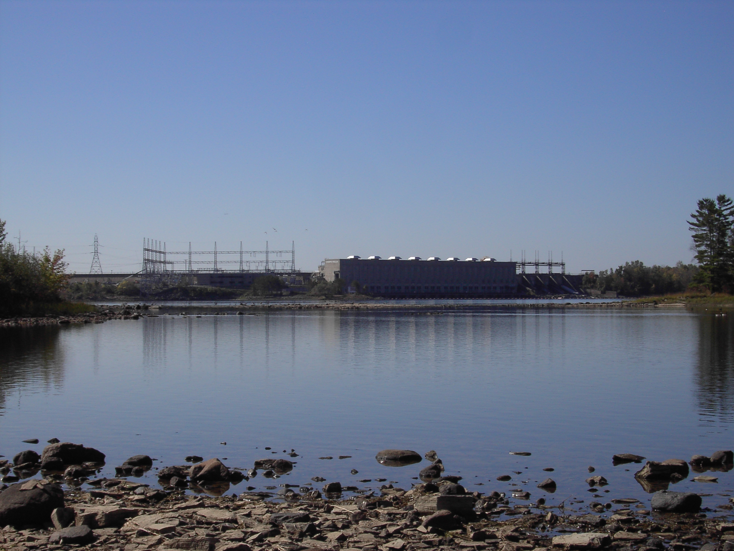 This picture is of the Chats Falls dam and hydroelectric generating station. It was taken by Jeffrey Arcand on Thursday October 4, 2007 from the shore of the Fitzroy Provincial Park in Ontario to the North-East of the dam.